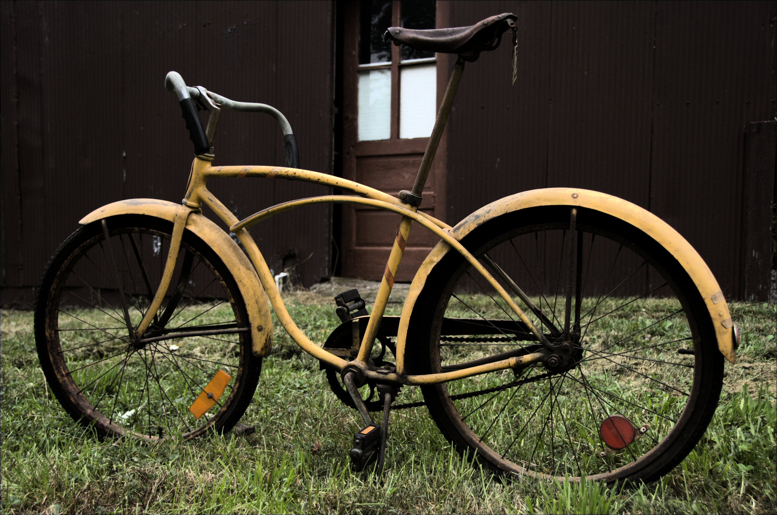 Kickass Schwinn